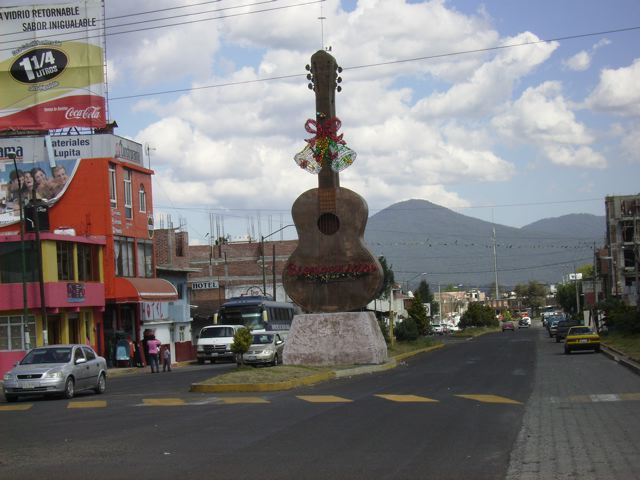 Guitar sculpture on the main drag of Paracho, Michoacan, Mexico. "Guitar town".